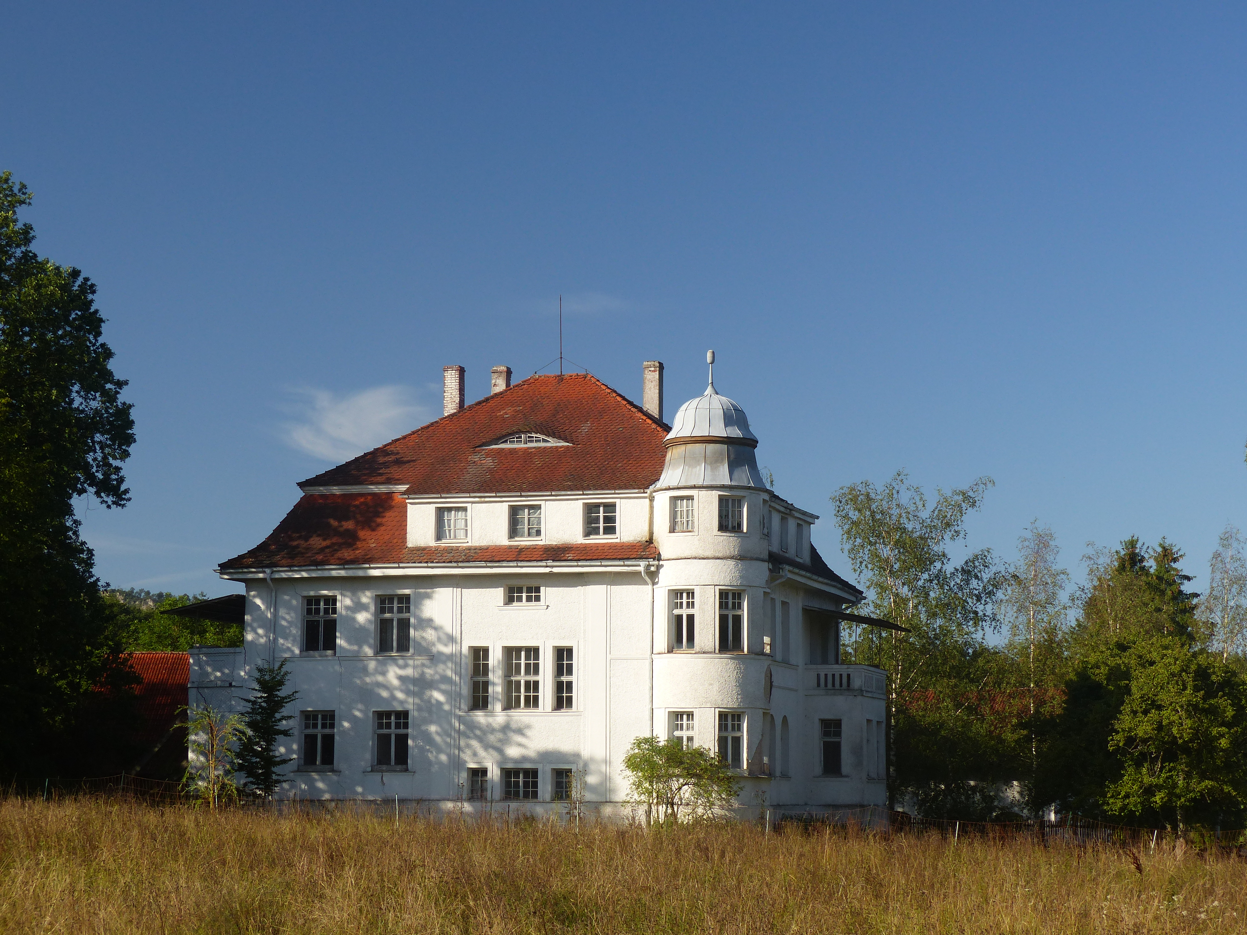 The northeastern view of a villa-like farmhouse in Kolmreuth, a hamlet district of the municipality of Pretzfeld.